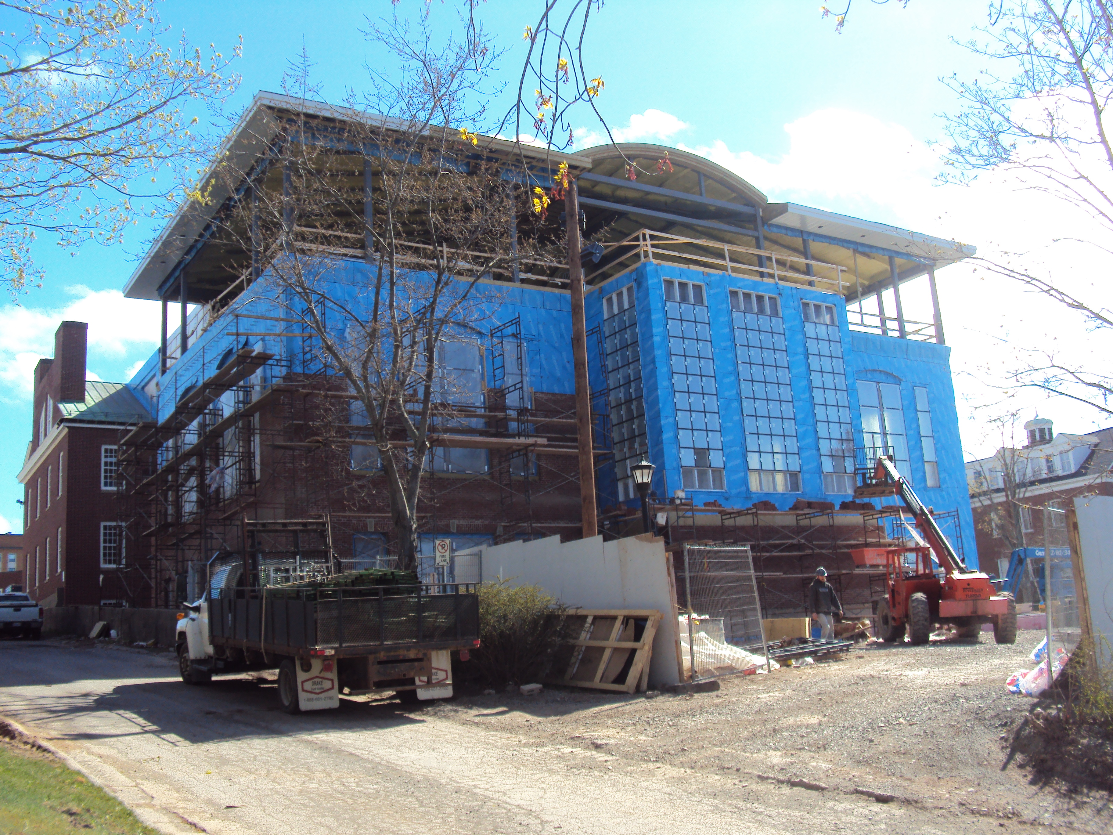 Gerald Schwartz School of Business and Information Systems construction site at St. Francis Xavier University, in Antigonish, Canada.